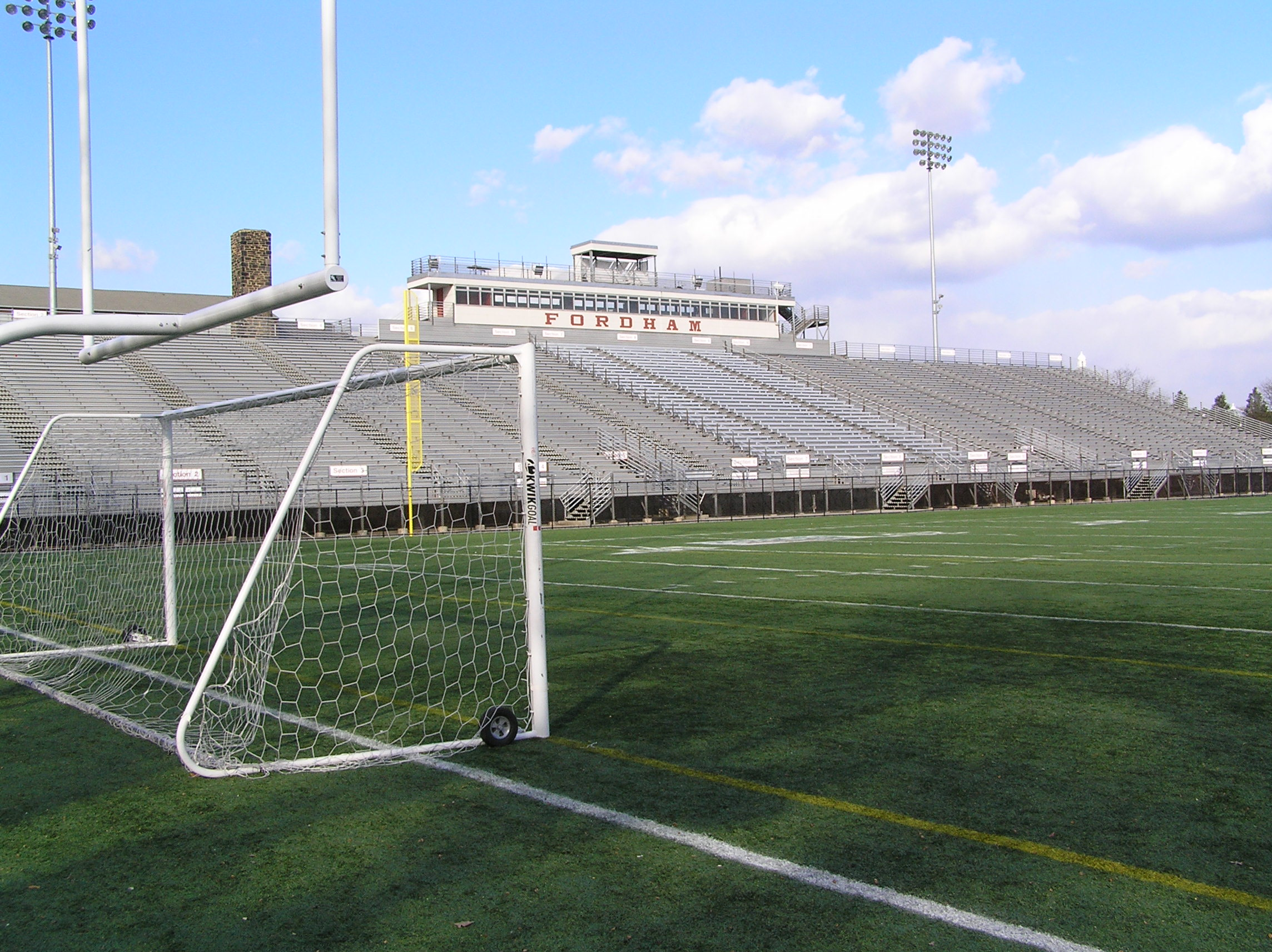 I took this photograph of Jack Coffey Field at Fordham University on December 6, 2006. — GNU Free Documentation License